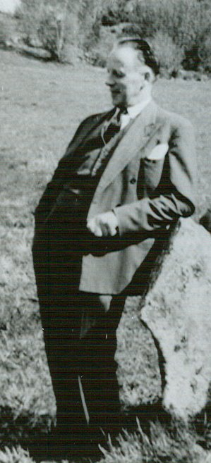 Hans Hyldbakk, Norwegian poet and local historian.